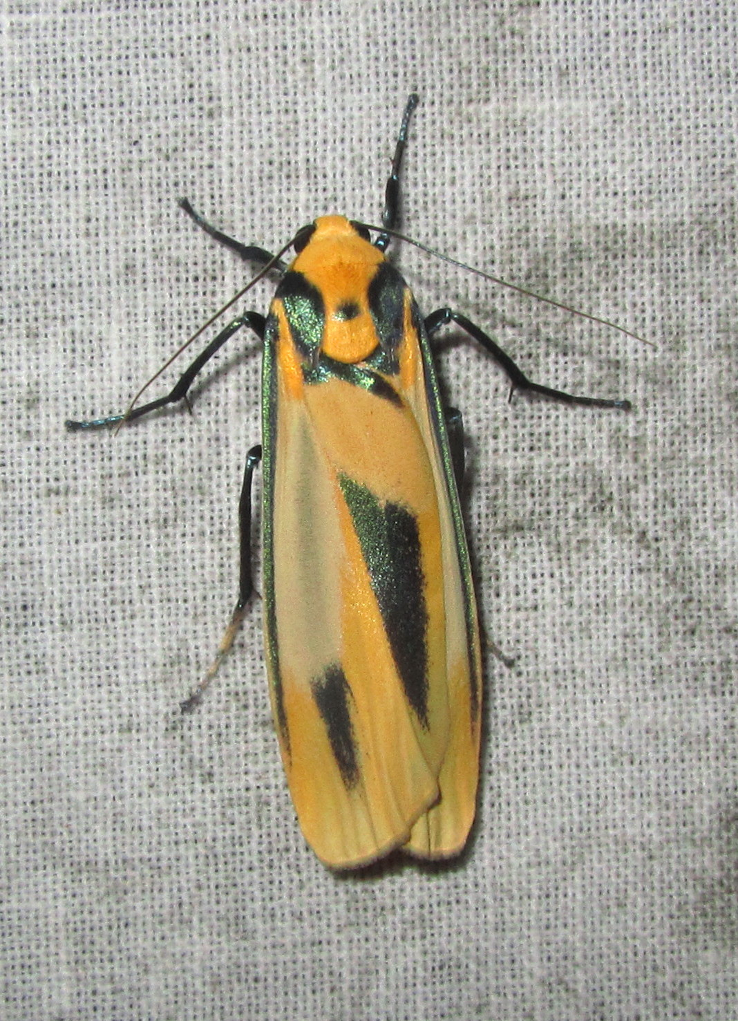 Chrysorabdia bivitta. Species of insect.